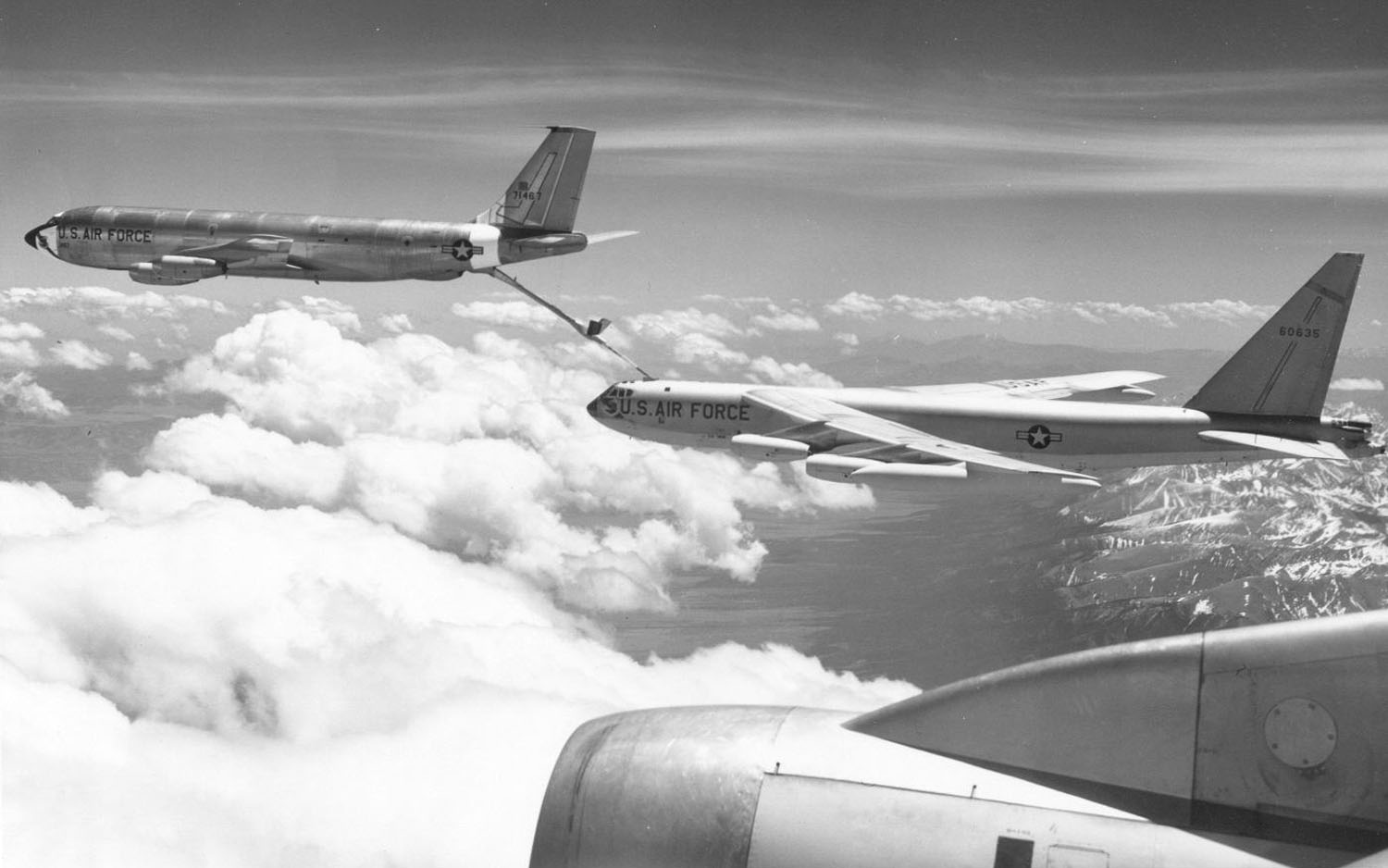 Boeing B-52E-85-BO (SN 56-0635) is refueled by Boeing KC-135A (SN 57-1467)